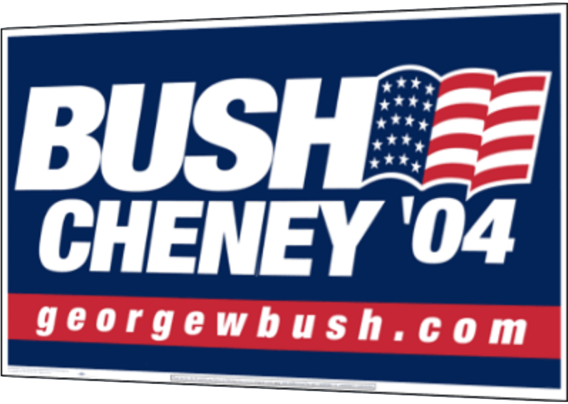 George W. Bush presidential campaign, 2004